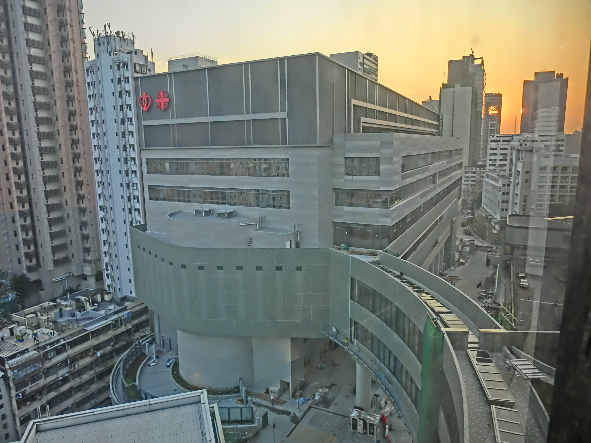 明愛醫院, Caritas Medical Centre, Cheung Sha Wan, Hong Kong